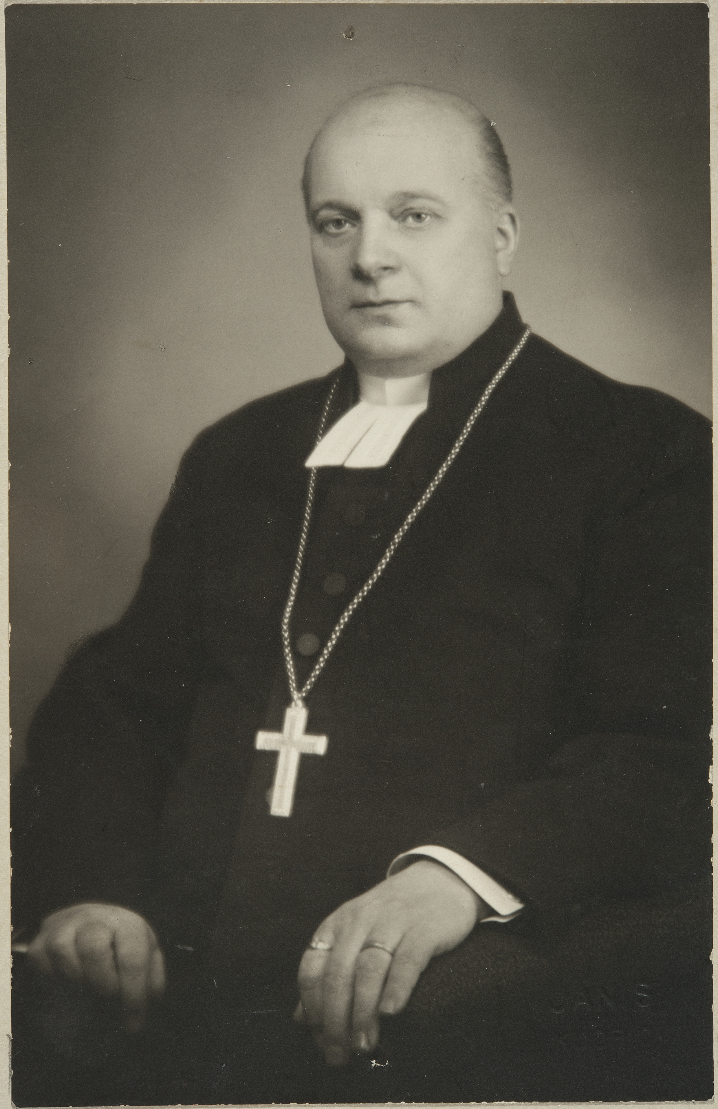 Photograph of the Finnish theologian Eino Sormunen (1893–1972).